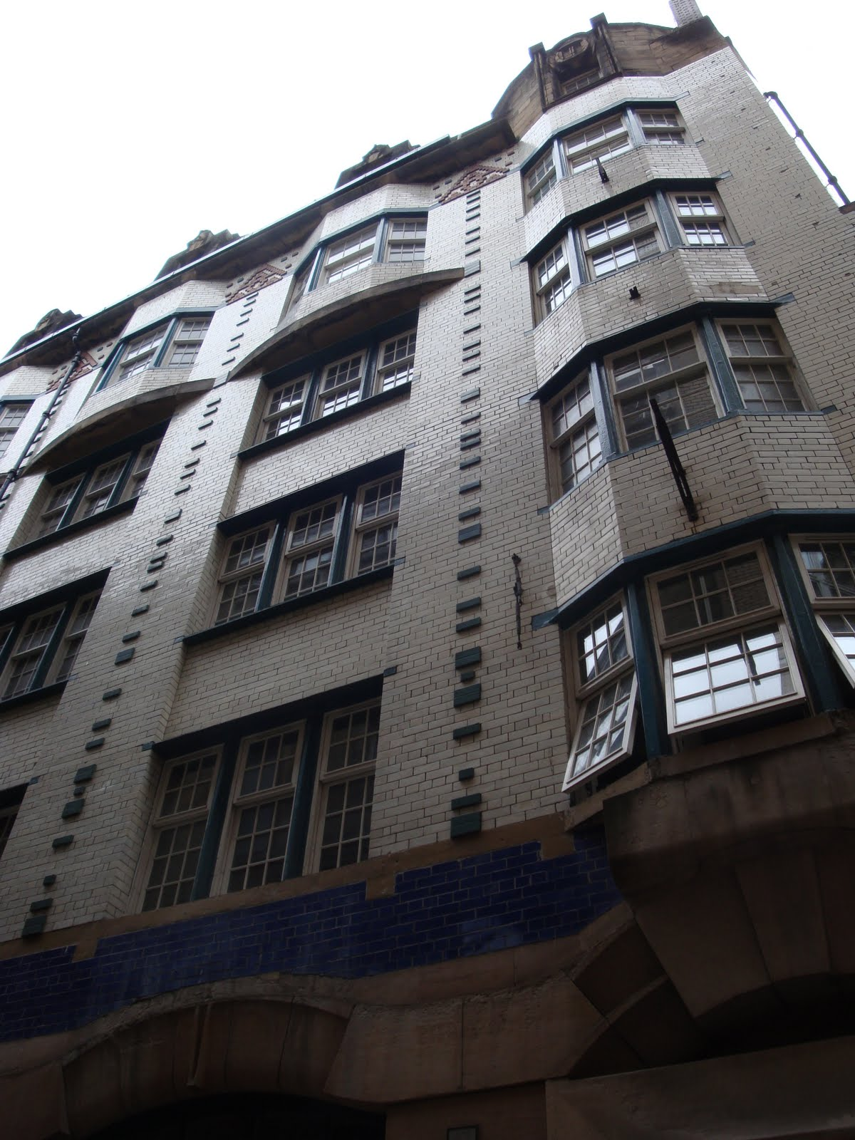 The Daily Record Printing Works in Renfield Lane